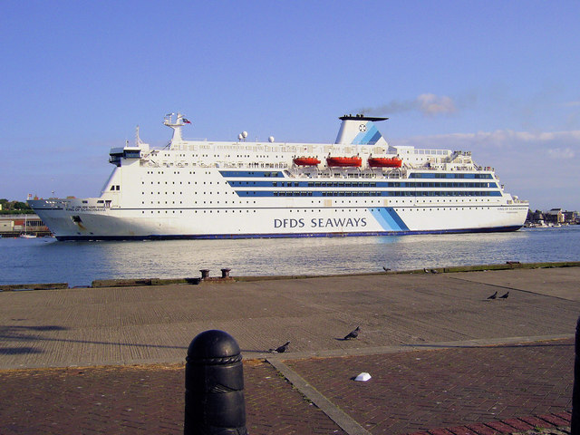 King of Scandinavia Taken from Fish Quay